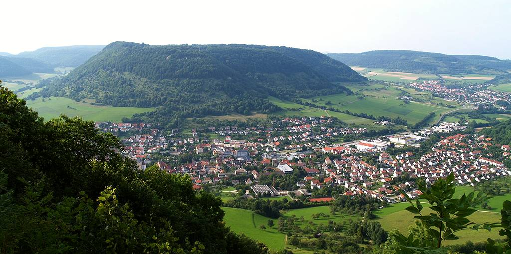 Deggingen, Germany